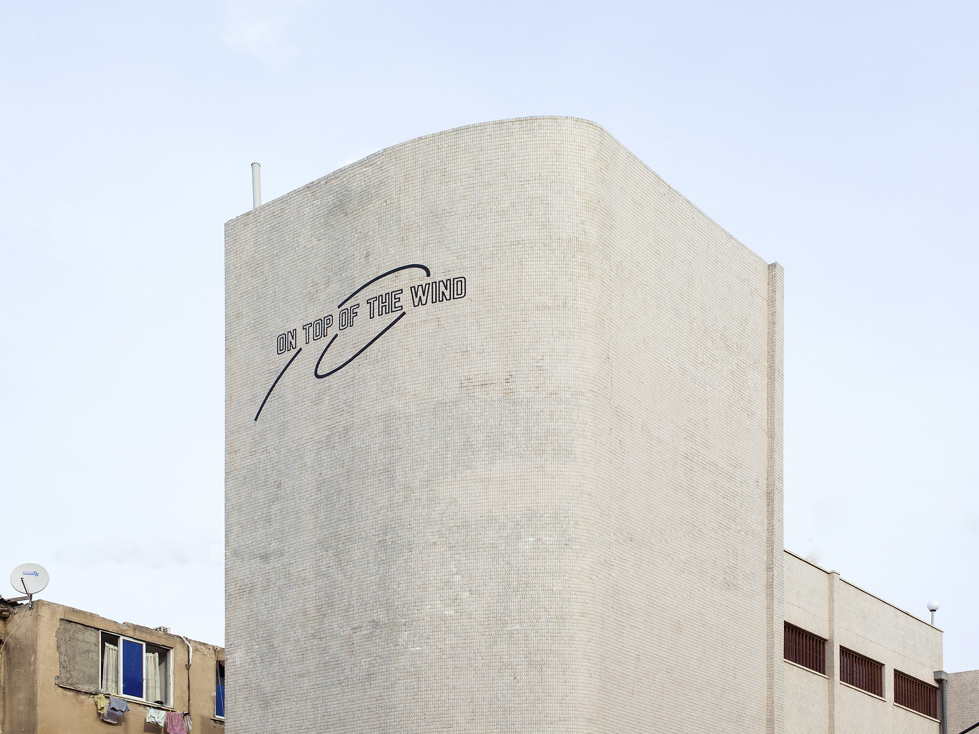 Dvir Gallery